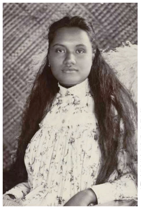 Tui Manuʻa Matelita (December 31, 1872 – October 29, 1895), was the Tui Manuʻa from 1891 to 1895.